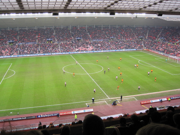 Sunderland AFC's Stadium of Light, near to Sunderland, Great Britain. Sunderland v Wigan. Final score 1-1. Nor the greatest game of football I've seen.